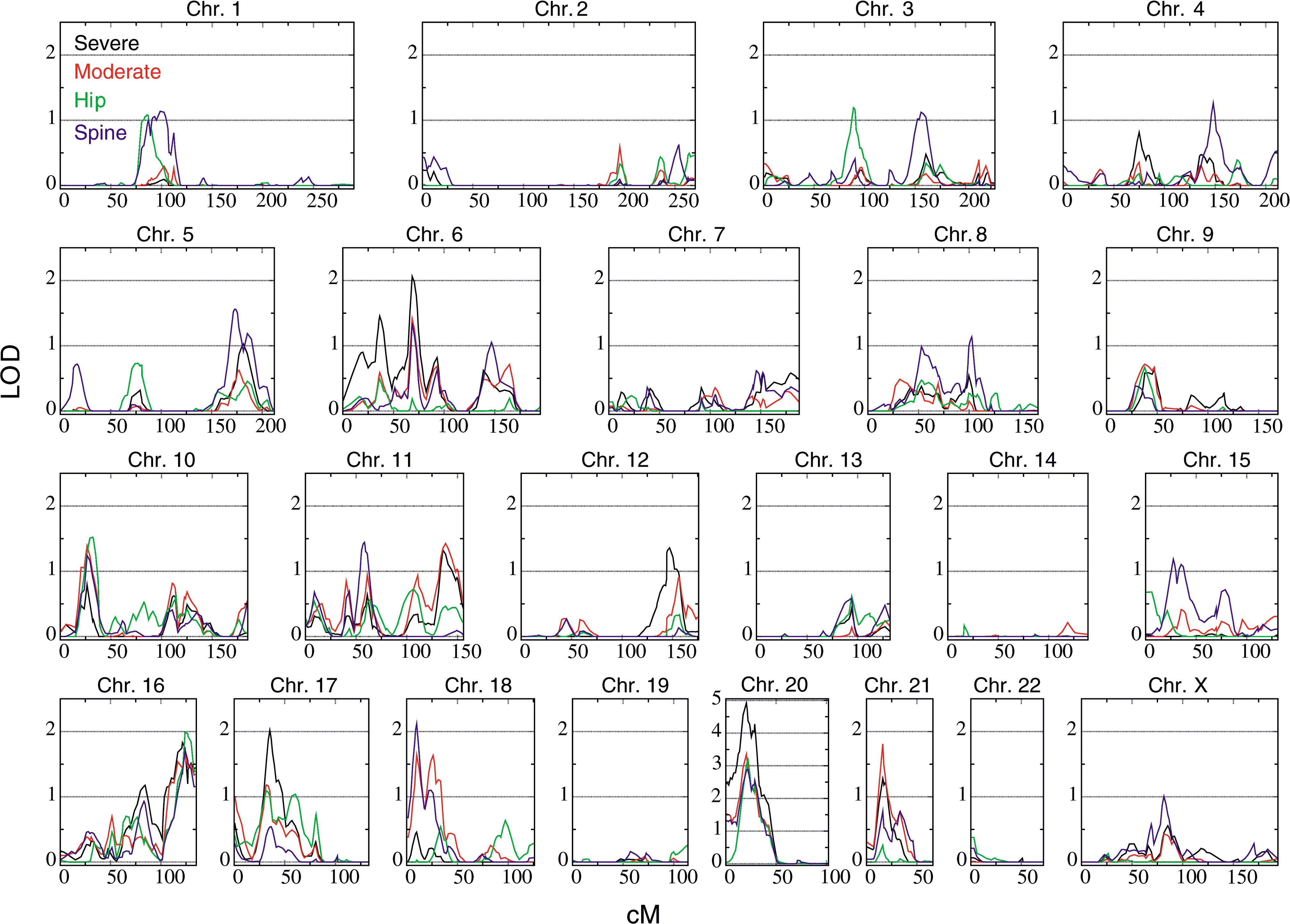 Example of a Genome-wide Scan for Quantitative Trait Loci (QTL); this study was performed on patients with osteoporosis; 1,100 microsatellite markers were used, and the main finding is a major QTL on chromosome 20; see also this image for a more detailed map of chromosome 20